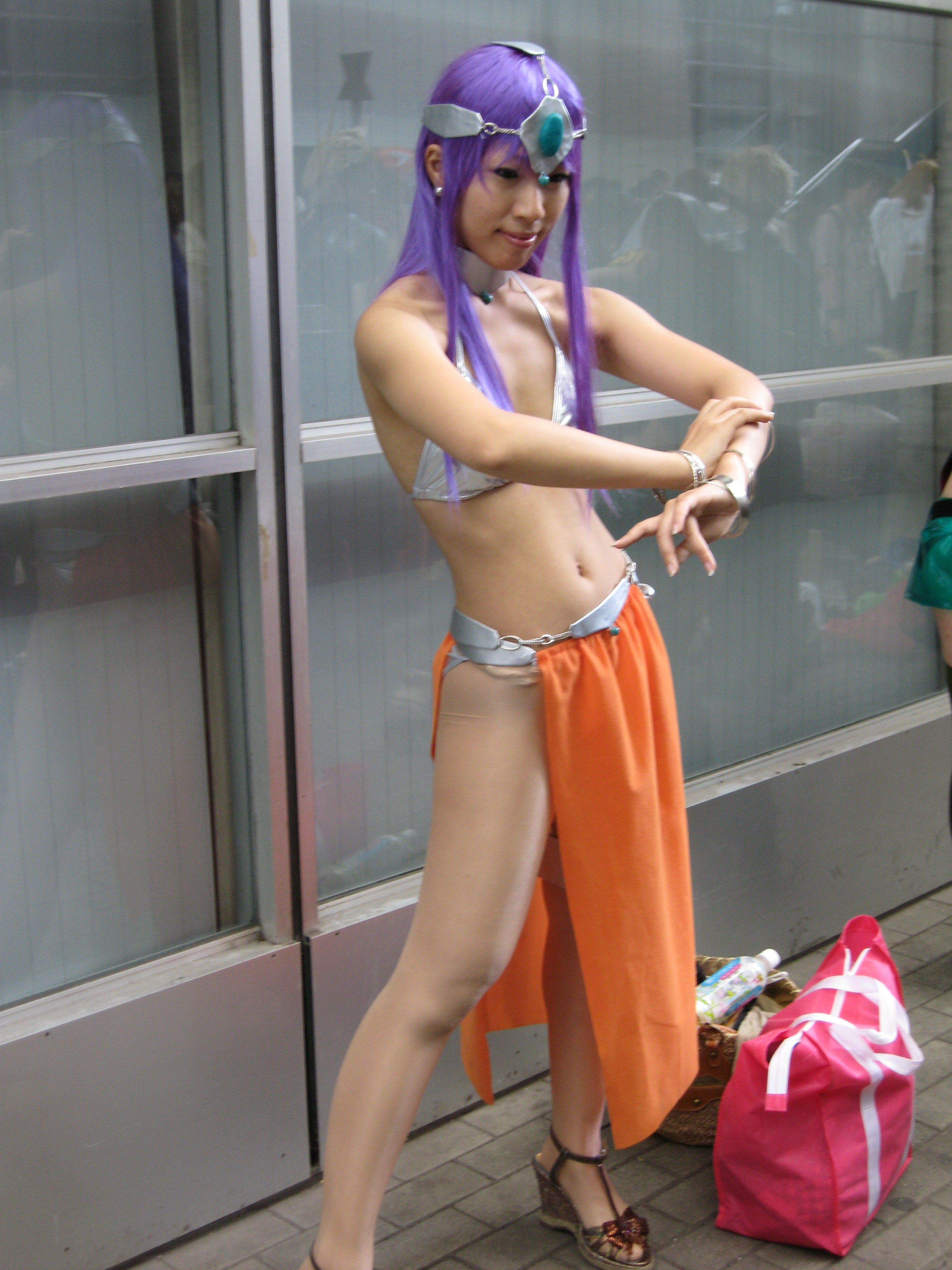 Taken on September 23, 2007 Chiba-shi, Chiba Prefecture, JP Canon IXY Digital 1000